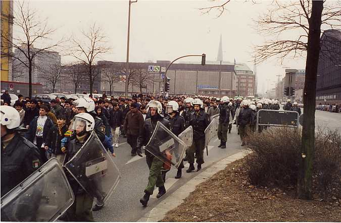 Demonstration of Kurds in the city of Hamburg, Germany, 1996.